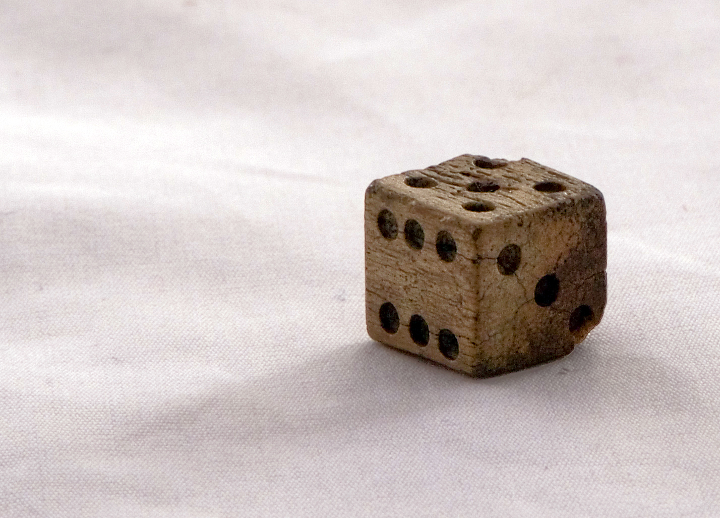 Bone die found at Cantonment Clinch (1823 - 1834), an American fort used in the Civil War by both Confederate and Union troops at separate times. The fort was also used in 1898 in the Spanish-American War.